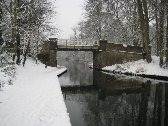 Grand Union Canal: Bridge No 168 at Gade Bank This bridge appears to have been built to carry an old track and later a road from Rickmansworth Road at Cassiobridge Lodge, past the site of the former Swiss Cottage, over this bridge from right to left, then along the south-west side of the original Cassiobury Estate to another lodge on the estate, and then to Rousebarn Lane and Rousebarn Farm. Today the road is a dead end coming from the west and Rousebarn Lane. For a summer view of the bridge please see Neil's 464942.